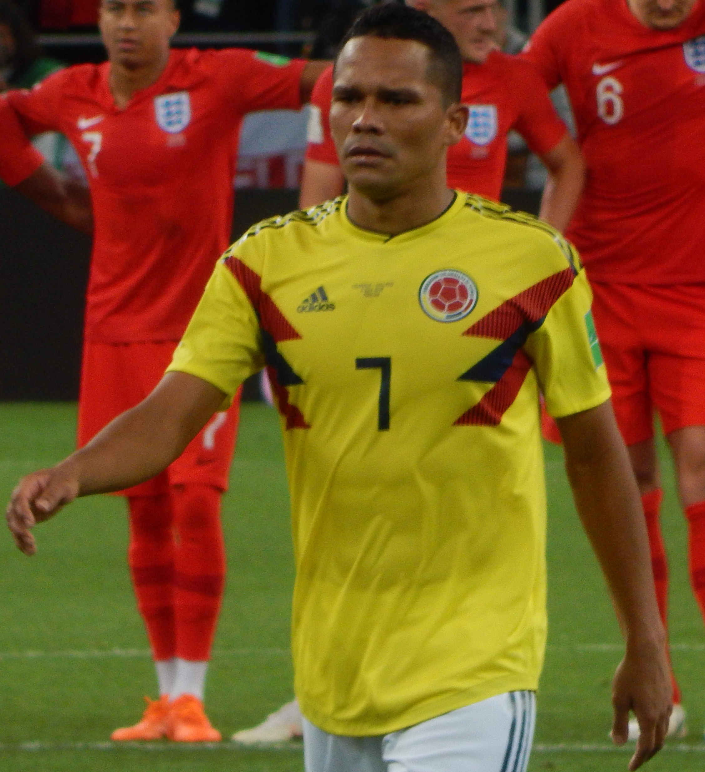 FIFA World Cup 2018, Round of 16, Colombia vs. England. Carlos Bacca before his kick during the shoot-out